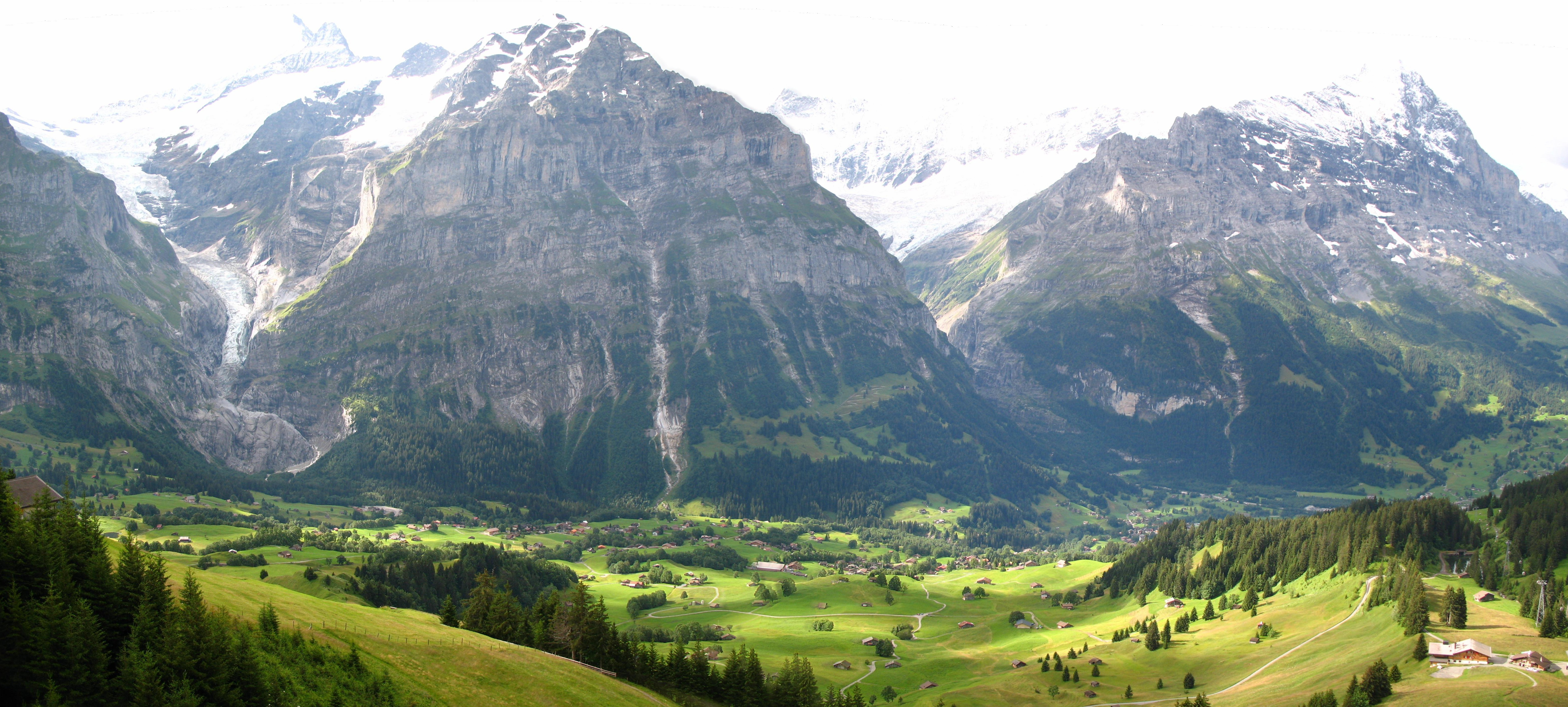 Wetterhorn, Schreckhorn, Mettenberg, and the Upper Grindelwald Glacier viewed from the First gondola lift, Grindelwald, Switzerland